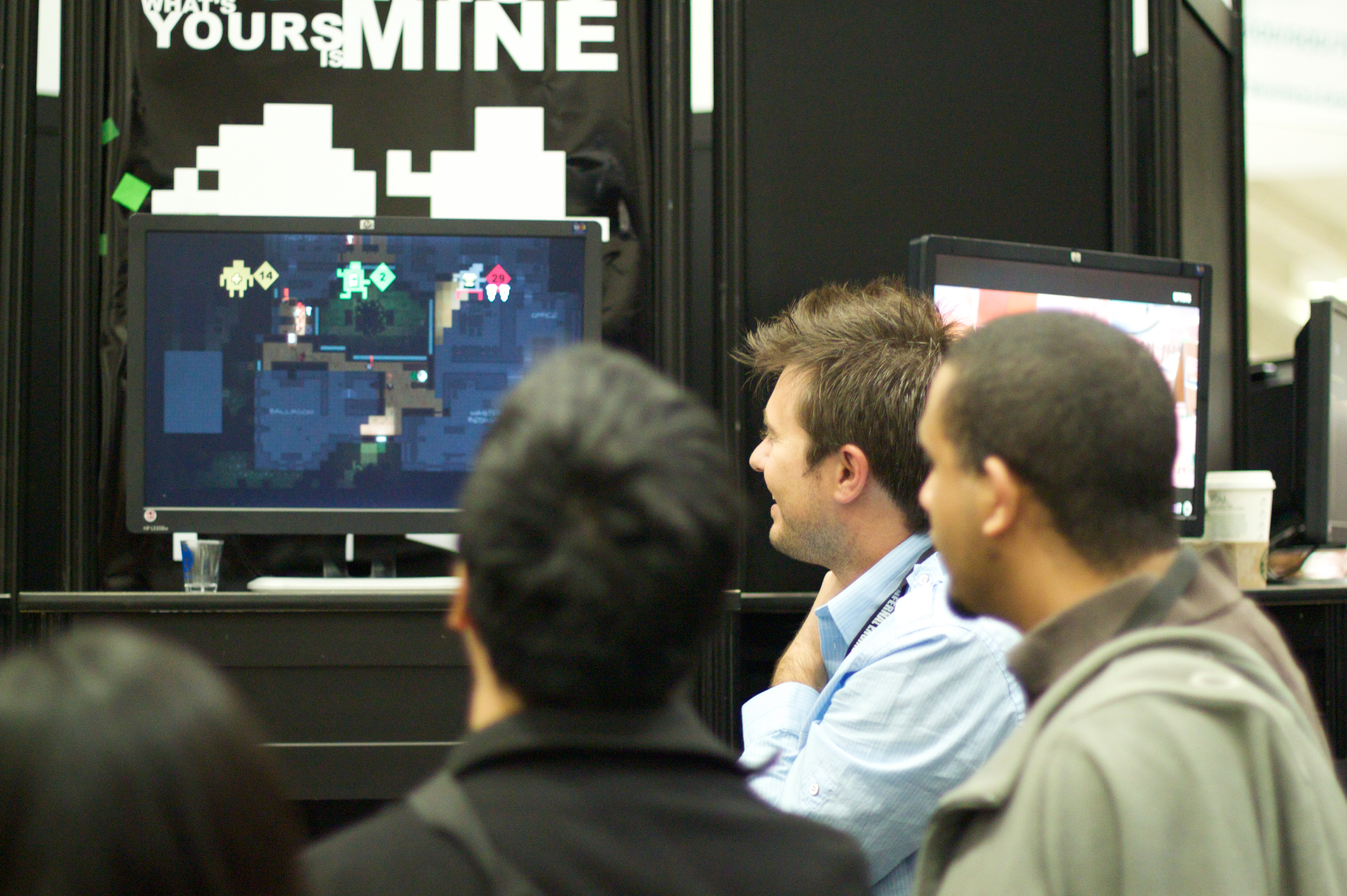 Andy Schatz shows off his video game Monaco: What's Yours Is Mine